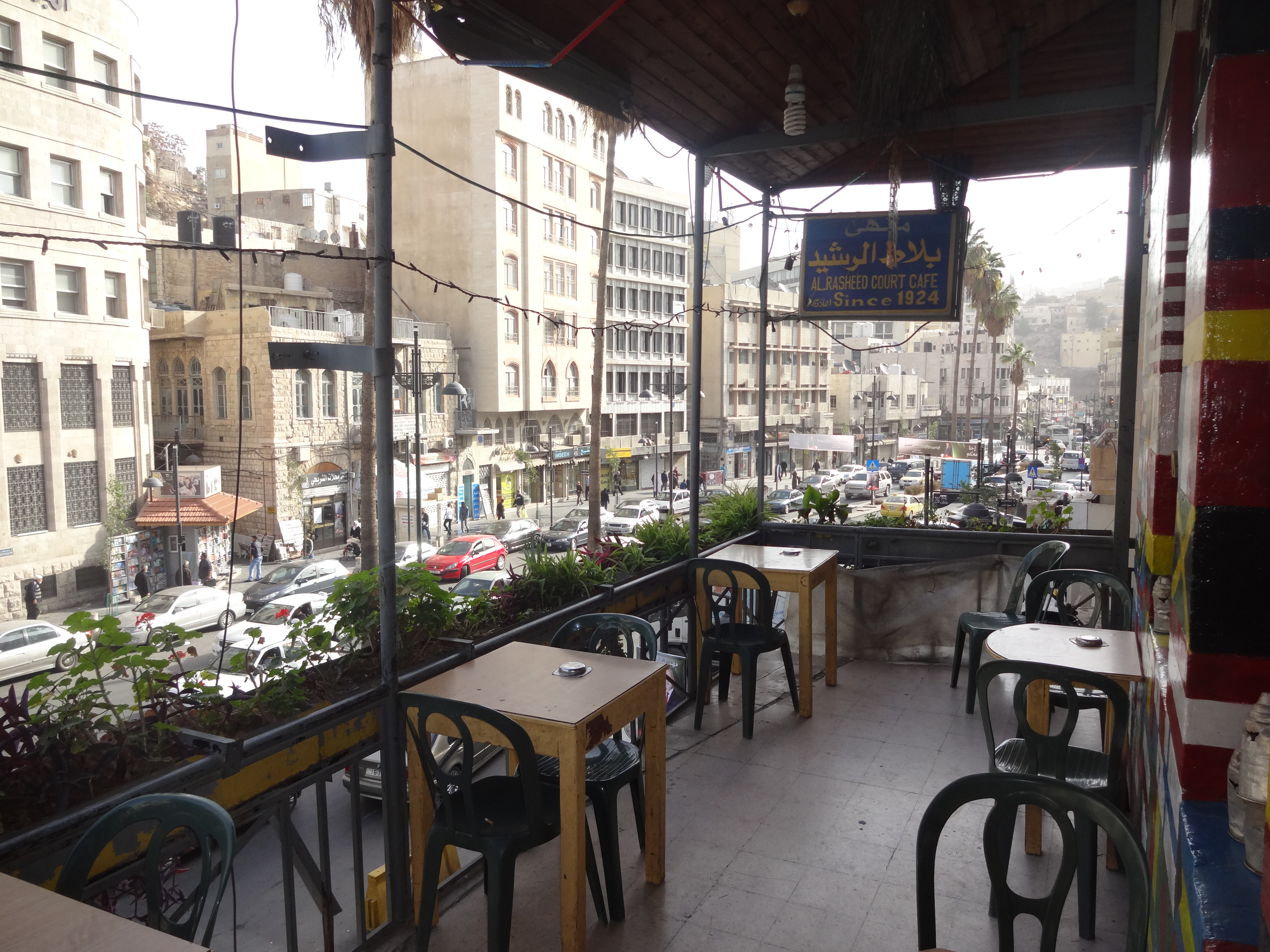 Old Amman Market and central area. Very famous Soque and a tourist magnet